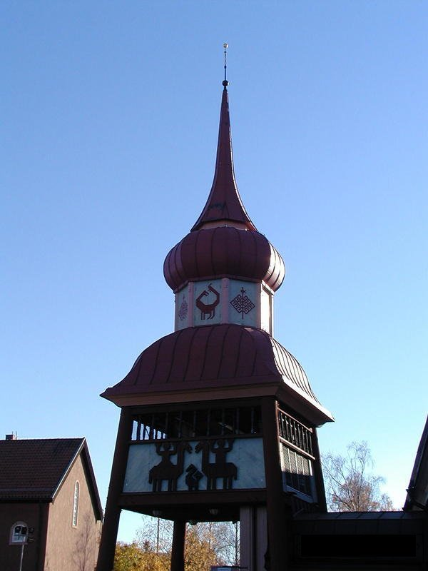 Entrance of Jamtli Friluftsmuseum ("Jamtli open air museum") in the Swedish town Östersund.